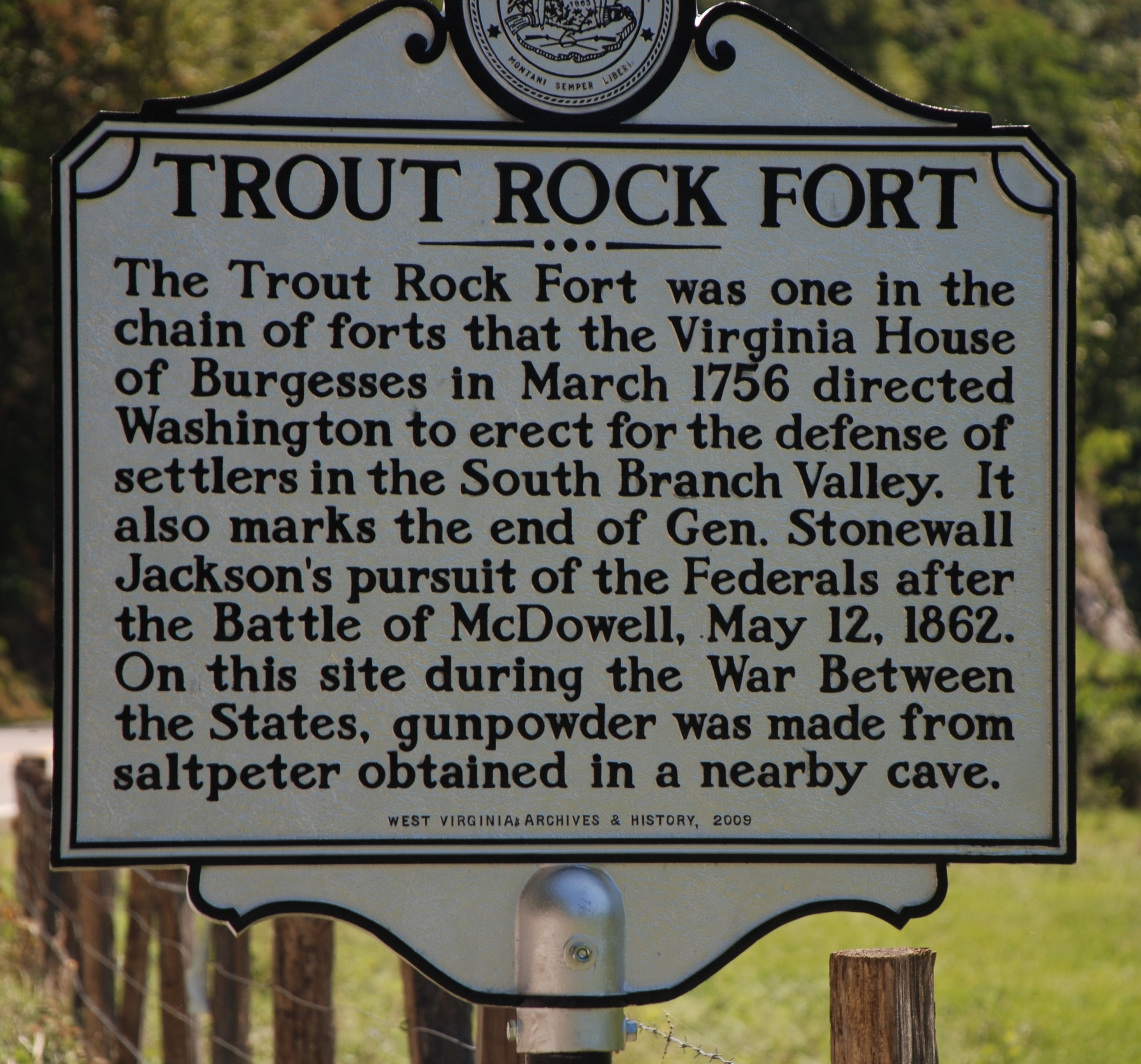 Historical Marker on route 220 near Franklin at the pullout commonly used by cavers visiting Hamilton Cave and Trout Cave of the John Guilday Caves Nature Preserve. Text: "TROUT ROCK FORT. The Trout Rock Fort was one in the chain of forts that the Virginia House of Burgesses In March 1756 directed Washington to erect for the defense of settlers in the South Branch Valley. It also marks the end of Gen. Stonewall Jackson’s pursuit of the Federals after the Battle of McDowell, May 12, 1862. On this site during the War Between the States, gunpowder was made from saltpeter obtained in a nearby cave. "